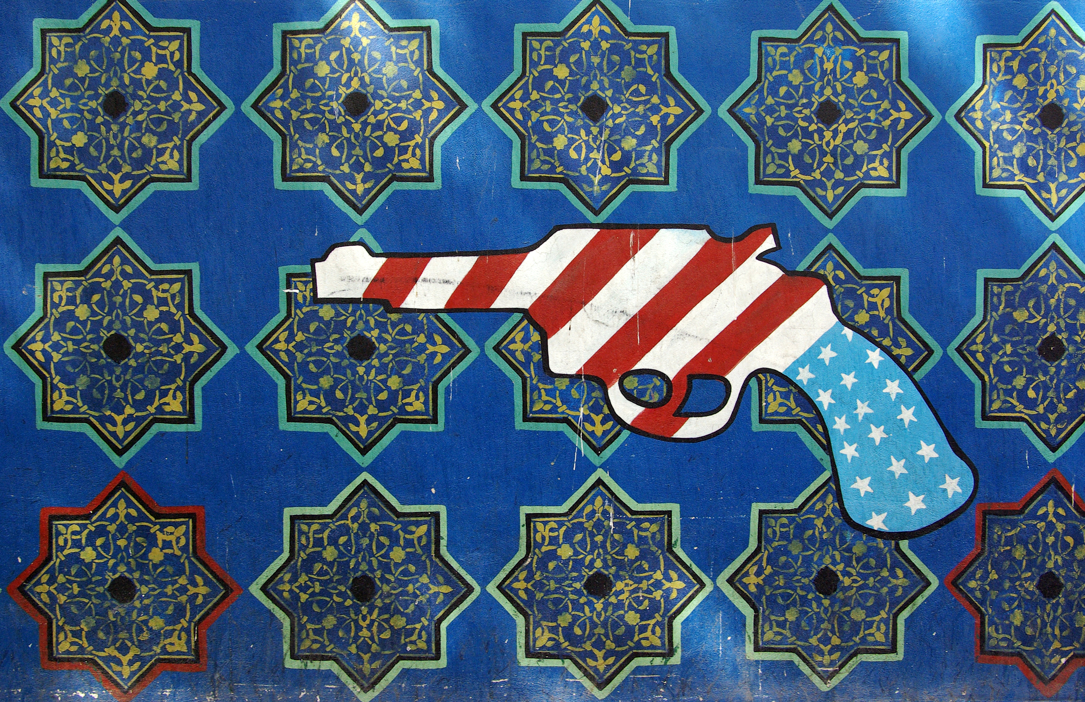 After the Iranian hostage crisis (1979-1981), the walls of the former US embassy were covered in mostly anti-US-murals